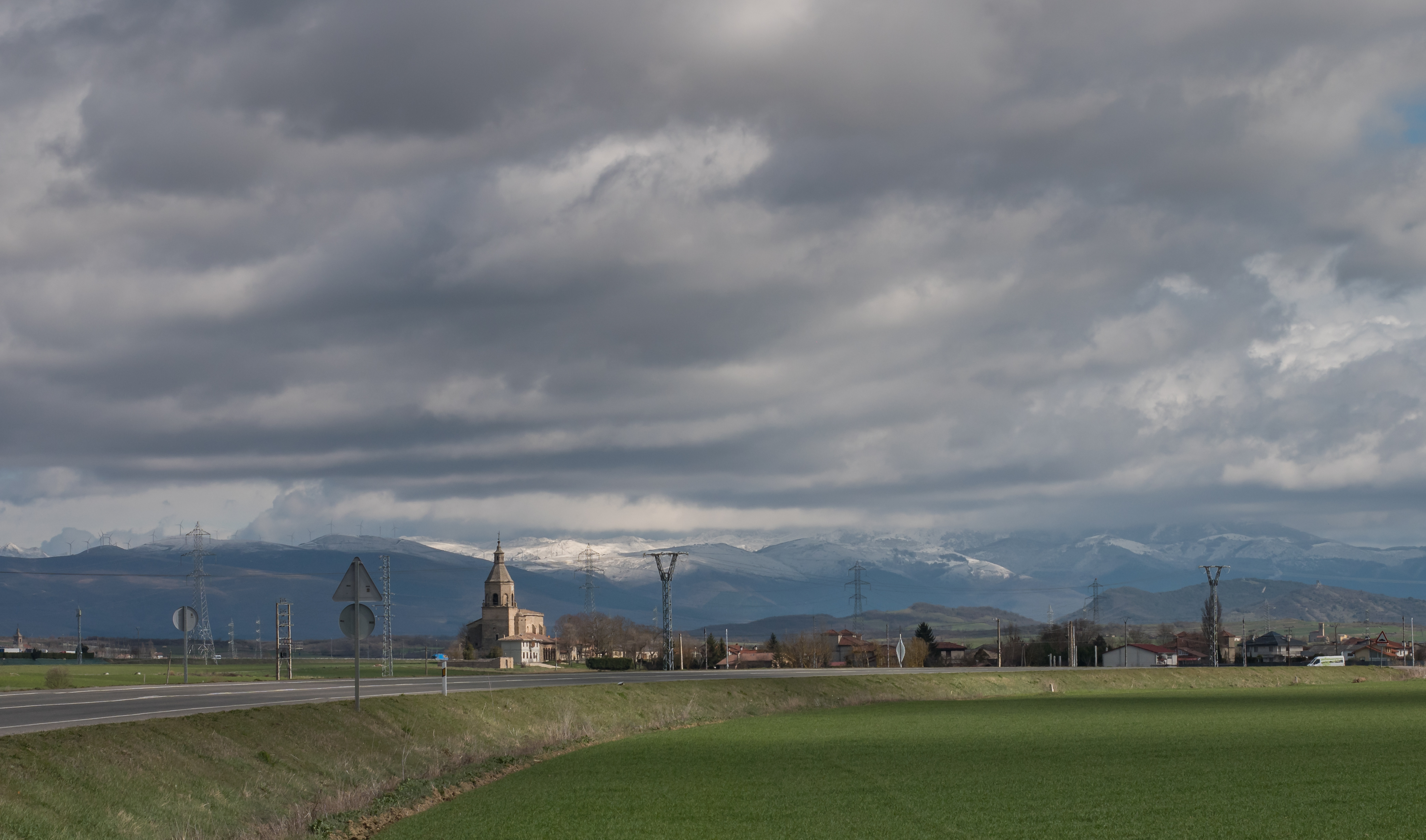 Zurbano, near Vitoria-Gasteiz. Álava, Basque Country, Spain